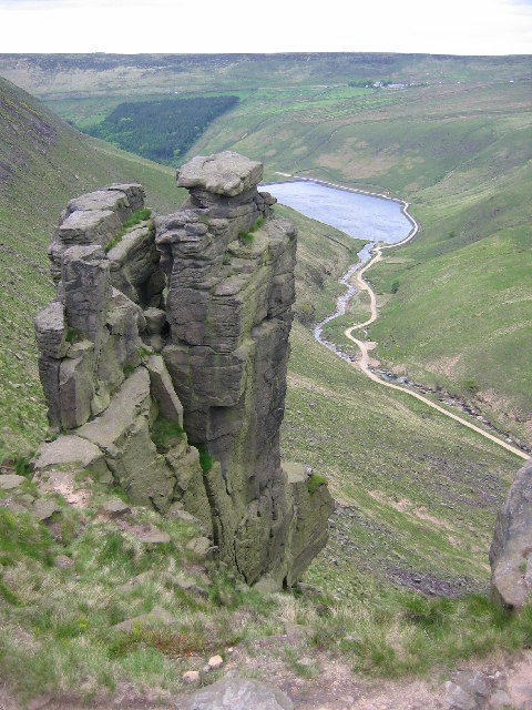 Trinnacle. Raven Stones - Trinnacle. Looking north west to Greenfield Reservoir (constructed 1903) Photo taken on a very windy day. Lucky to stand up let alone take a steady shot!